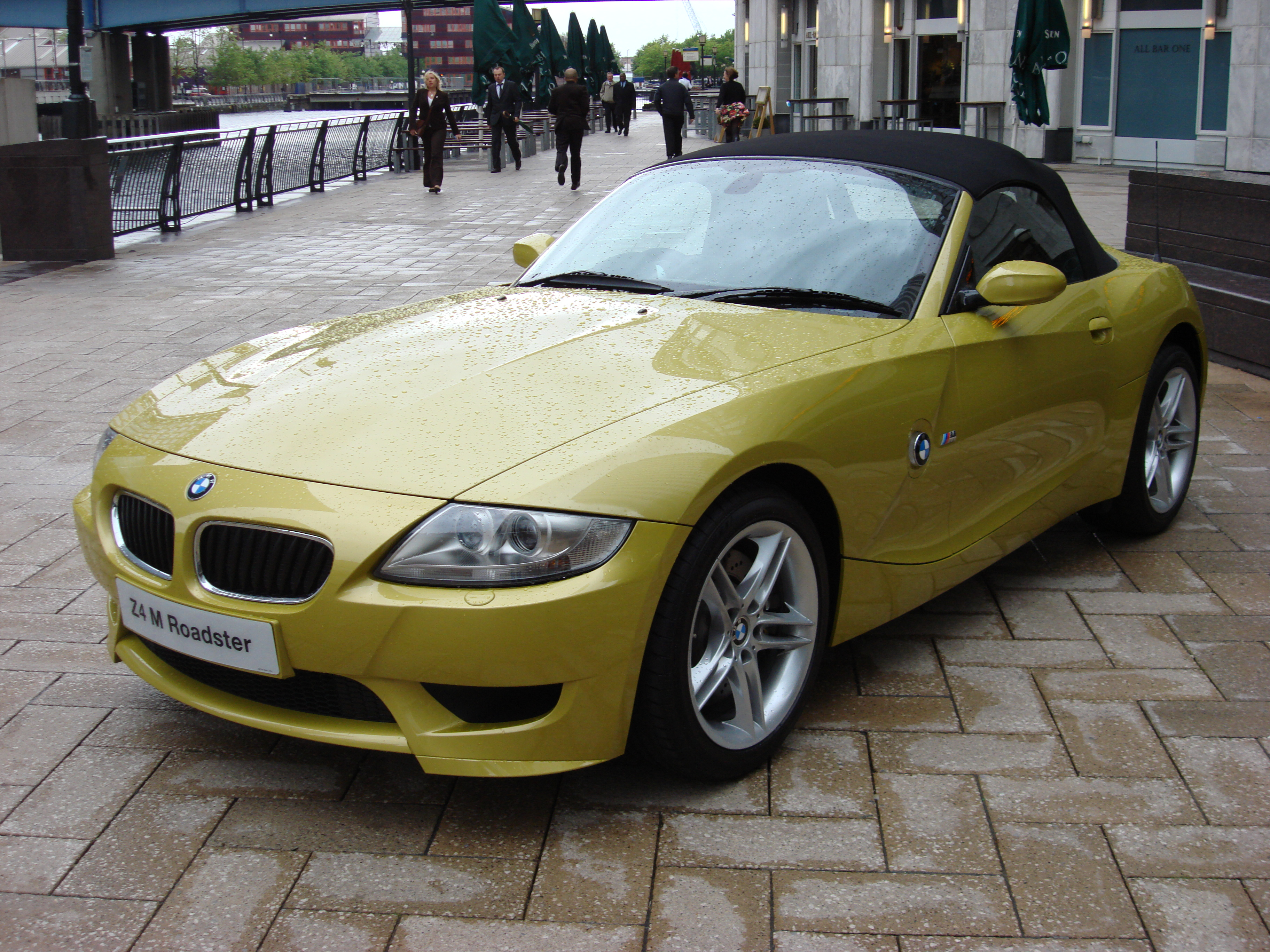 BMW Z4 M Roadster at Canary Wharf London